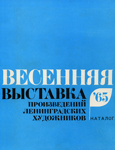 Cover of the catalog of Spring Exhibition of works by Leningrad artists of 1965